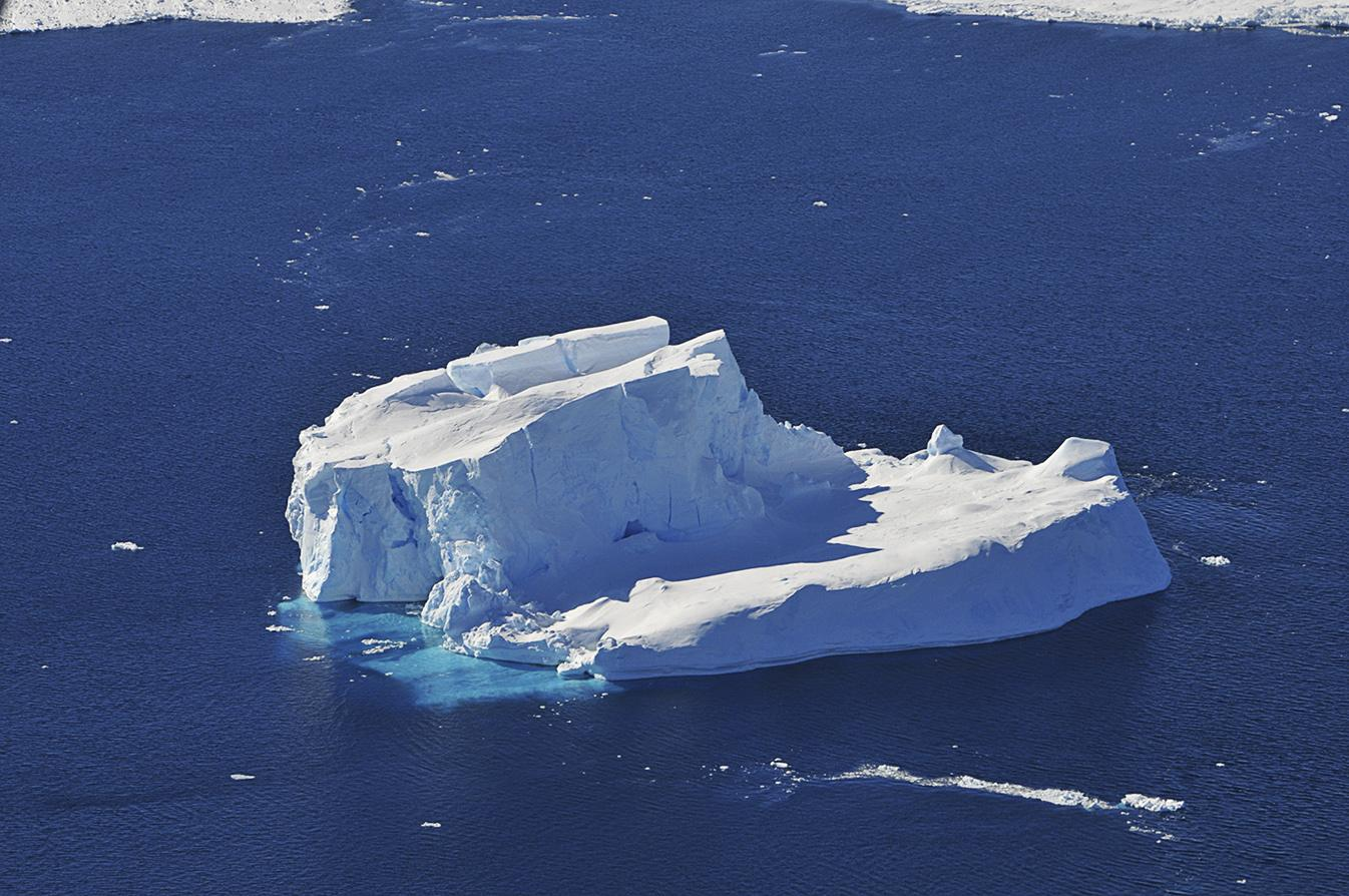 Antarctic iceberg - Amundsen Sea in West Antarctica on Wednesday, Oct., 21, 2009